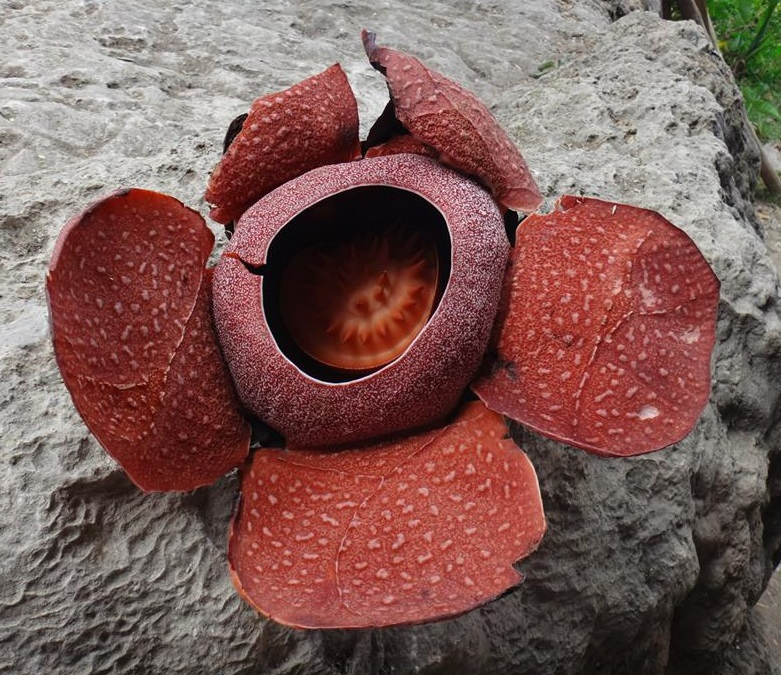 This is a bloom of Rafflesia speciosa from Barangay Ongyod, Miagao, Iloilo